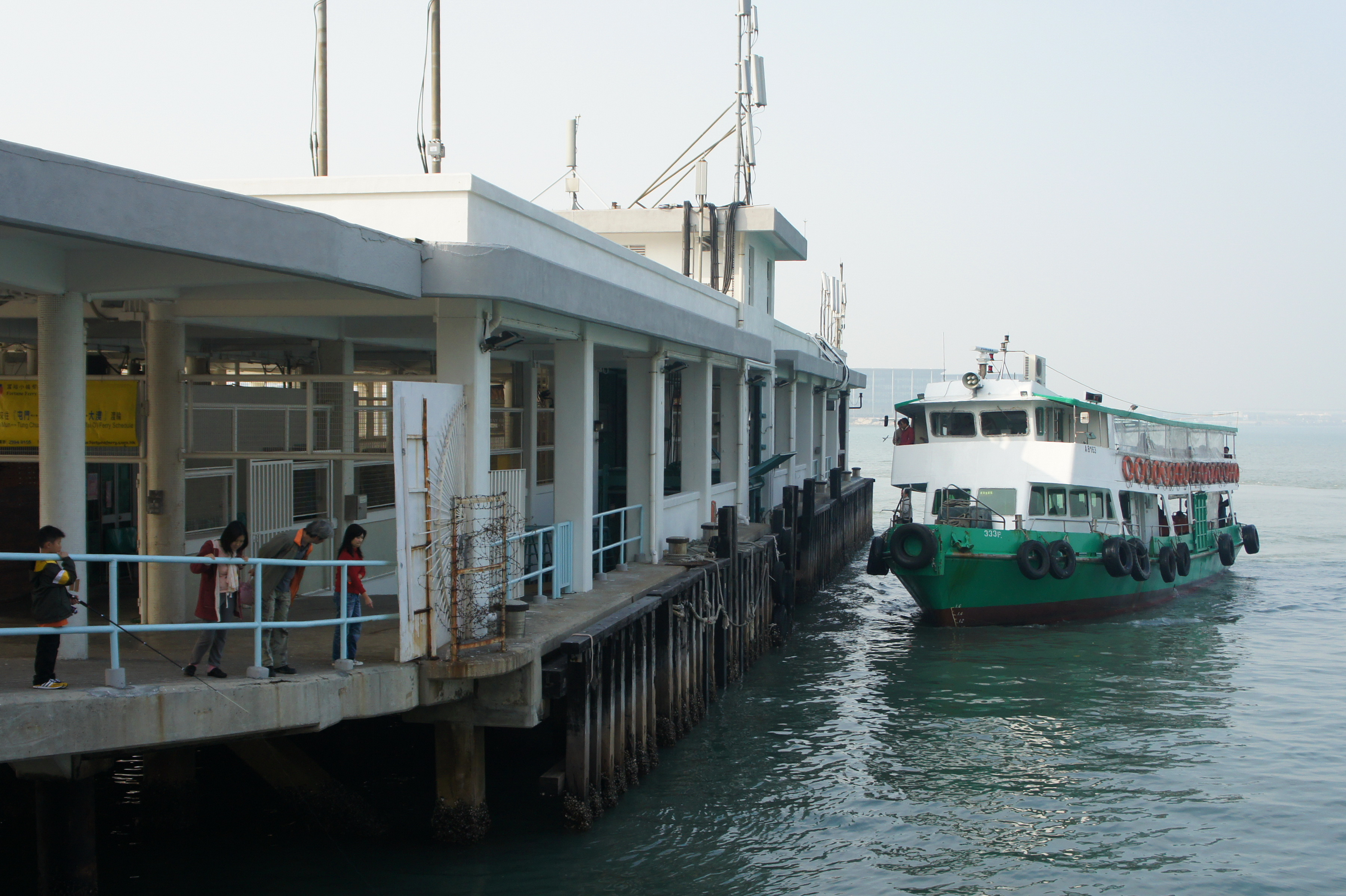 A Fortune Ferry at the Tung Chung New Development Ferry Pier, Tung Chung, Hong Kong.